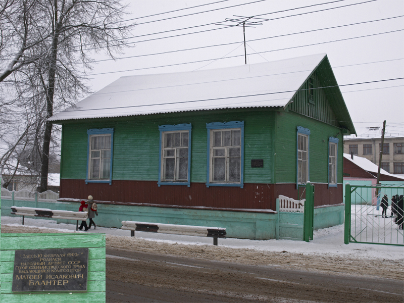 Birthplace of Mathvey Blanter, Pochep, Bryansk Region, Russia